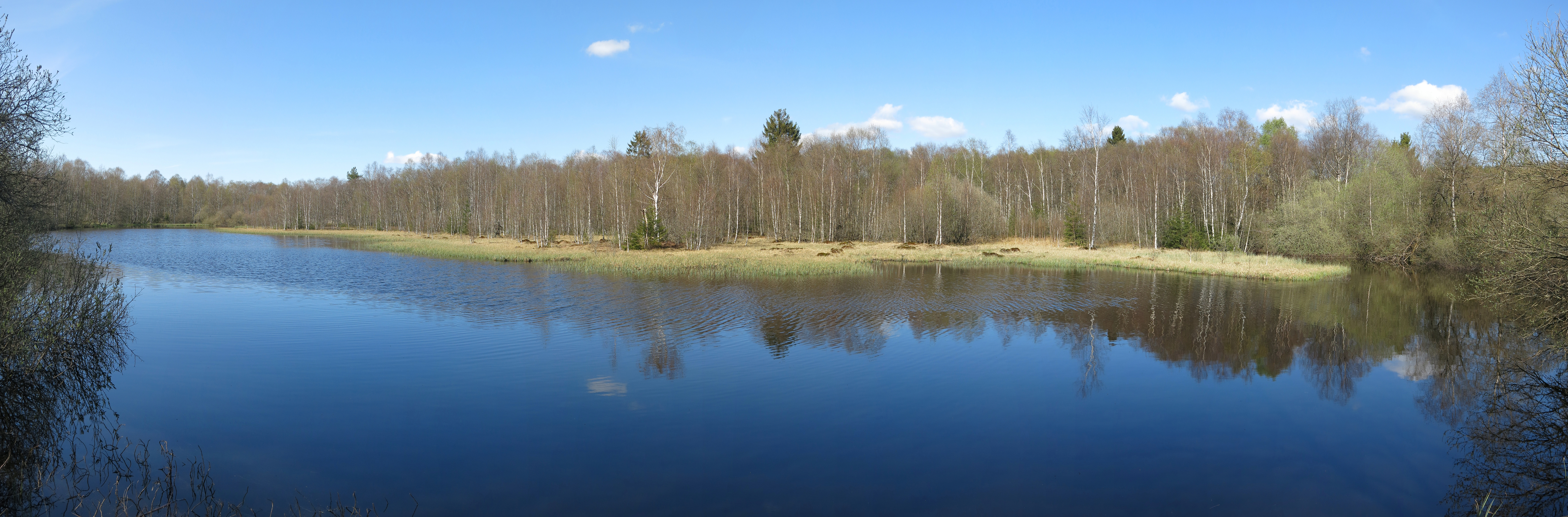 Pond in the Red Moor